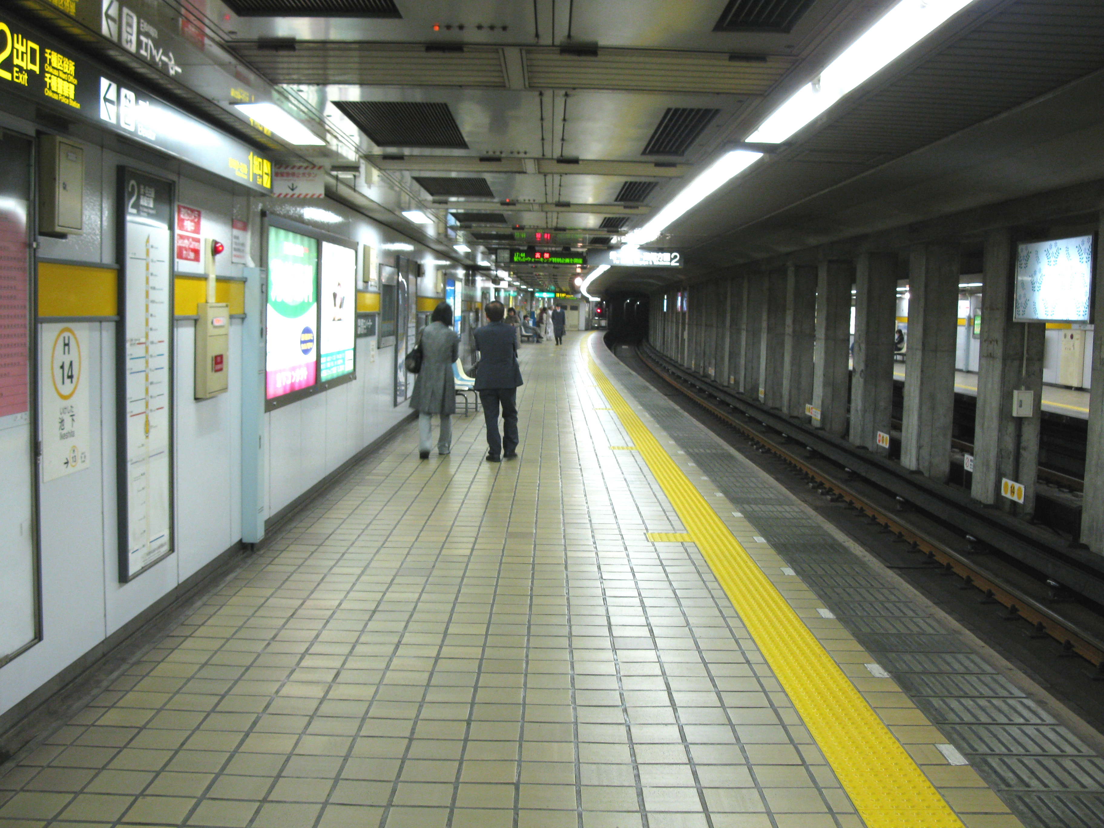 Ikeshita Station platform (Nagoya Municipal Subway Higashiyama Line)